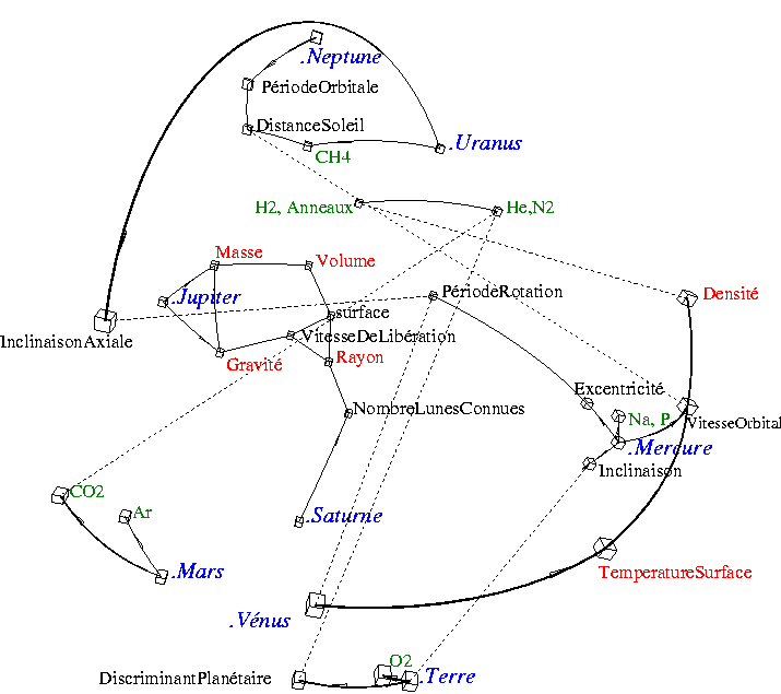 Iconography of correlations of planets